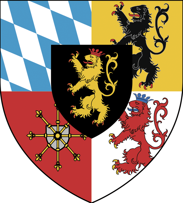 Coat of Arms of Palatine-Zweibruecken